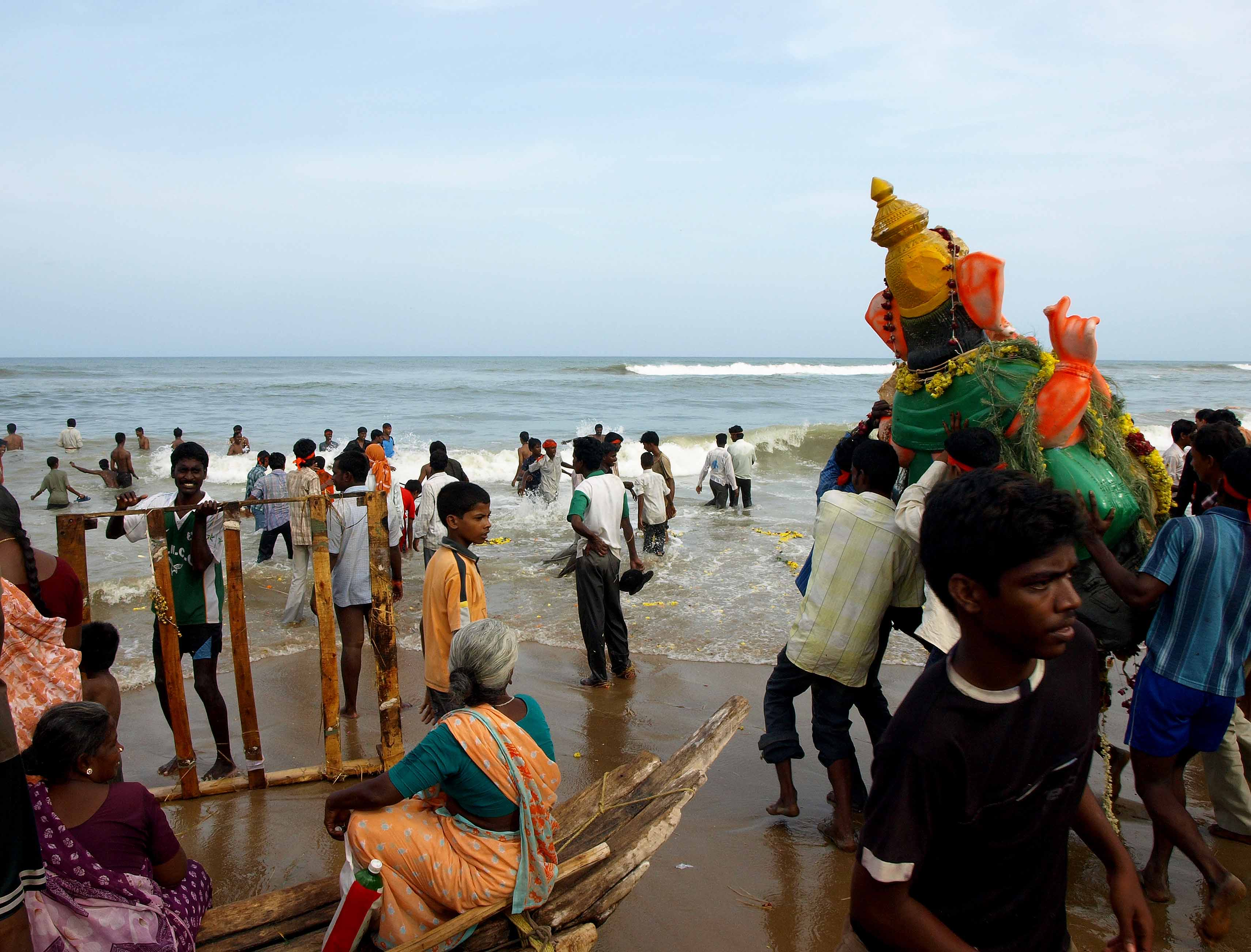 Imersion of Ganesh Idols at Foreshore Estate, Chennai